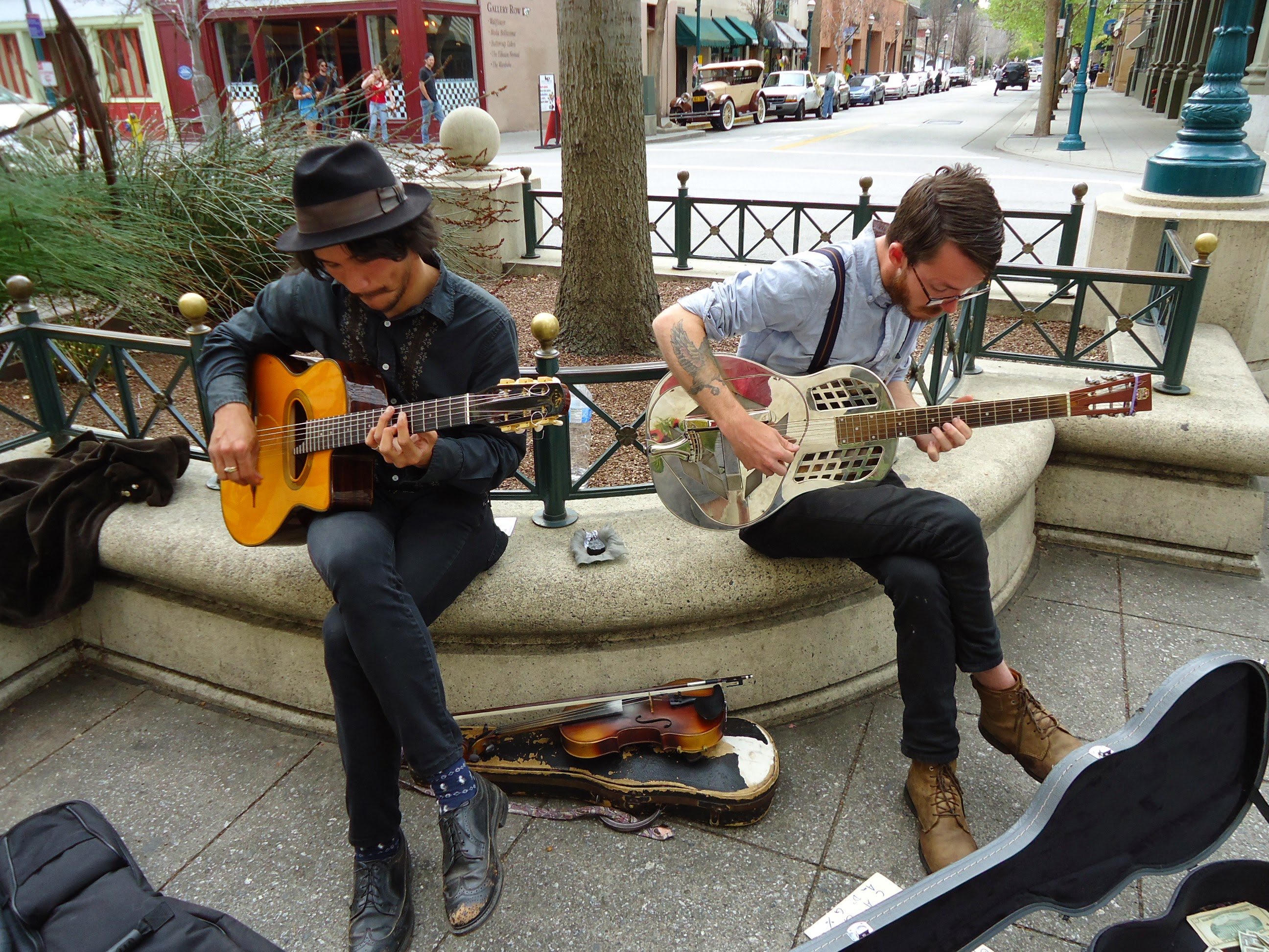 Street musicians playing in Santa Cruz, California.